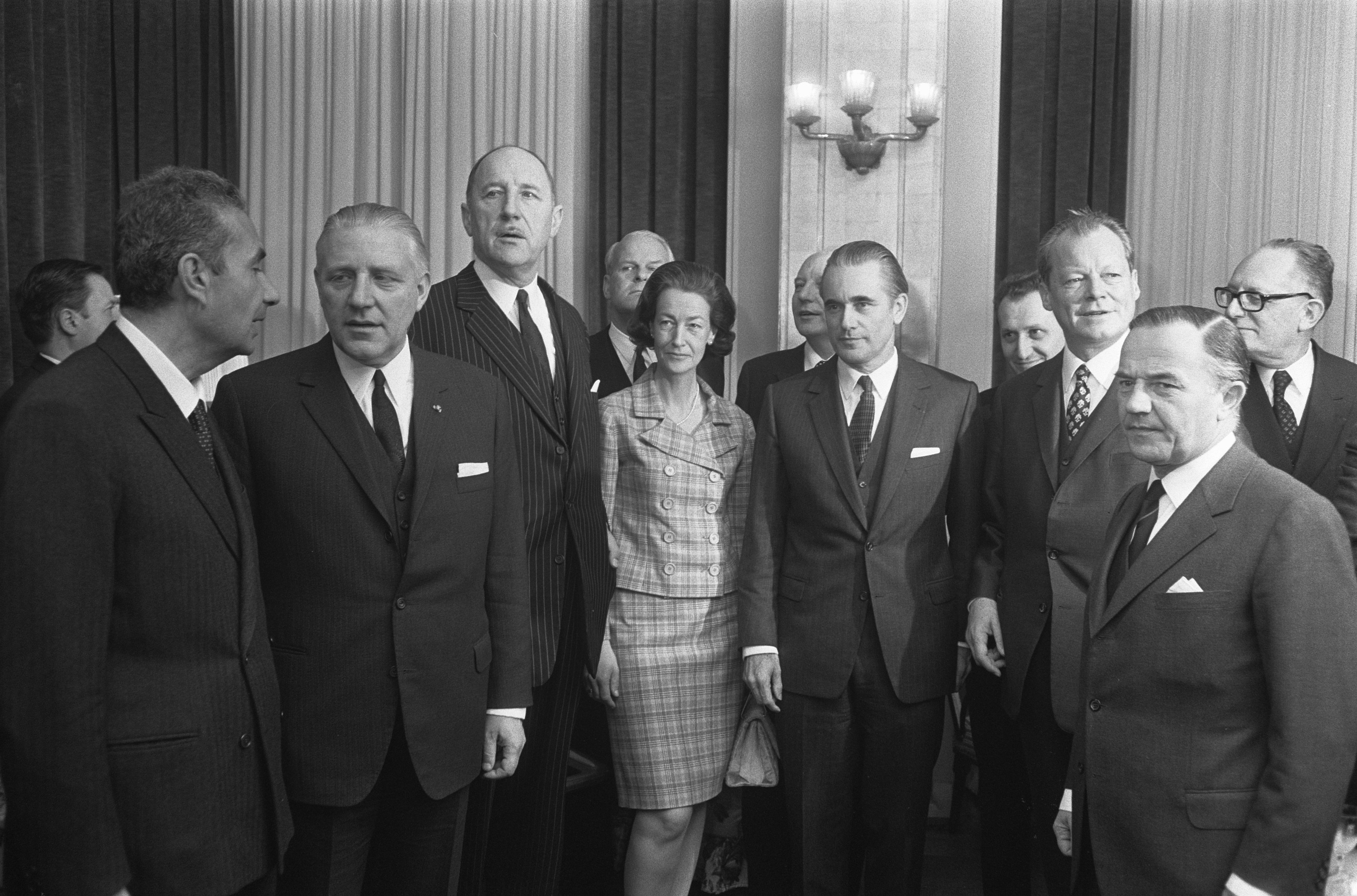 Participants at the Summit: f.l.t.r.: Luns Minister of Foreign Affairs, Katharina Focke (Germany), Walter Scheel (German Minister of Foreign Affairs), the French Prime Minister Chaban-Delmas, Chancellor Willy Brandt of West Germany and Prime De Jong.